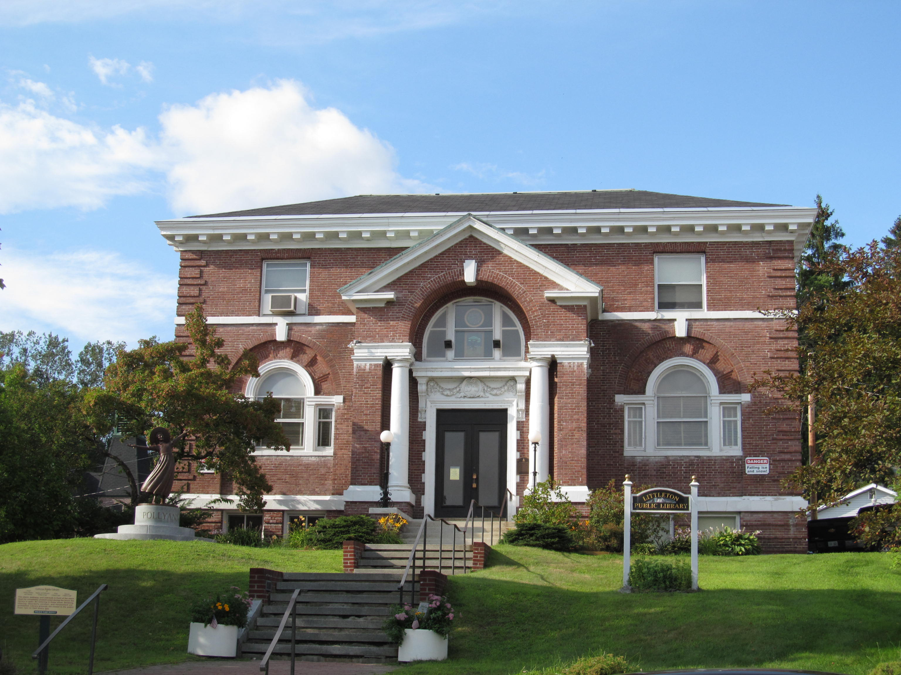 Bronze statue of Pollyanna in front of the public library of Littleton, New Hampshire.